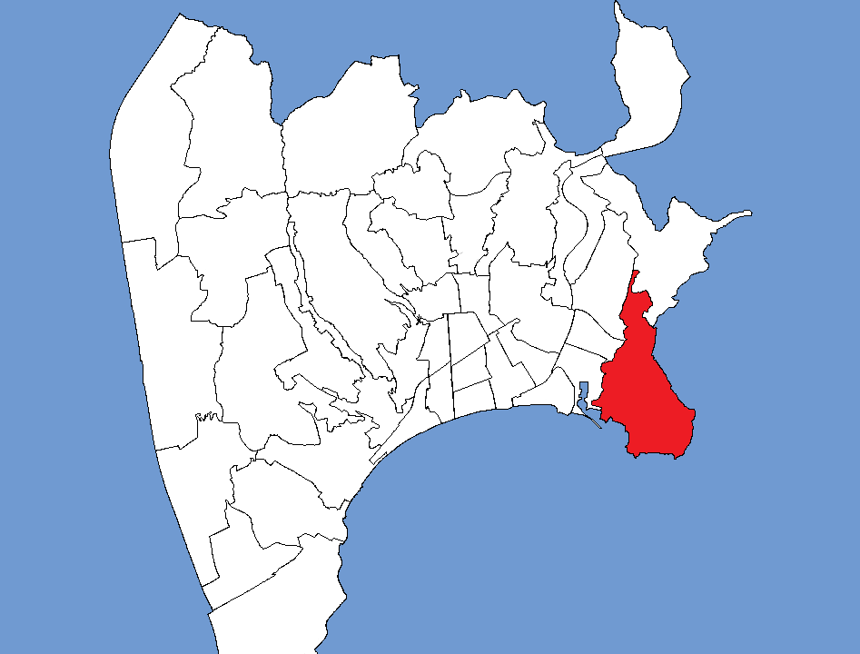 Location of the neighbourhood Mont Boron in Nice